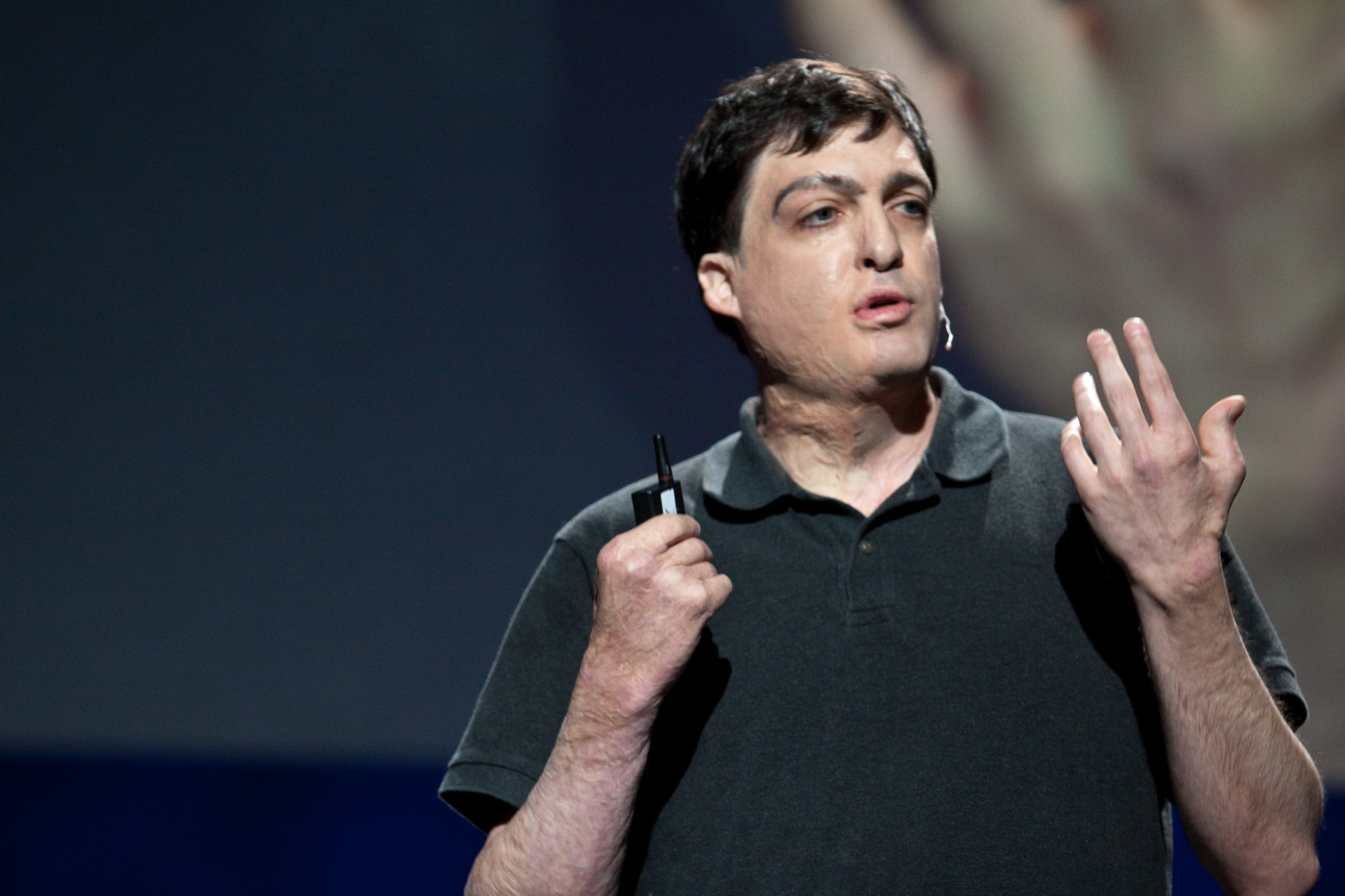 Dan Ariely speaking at TED